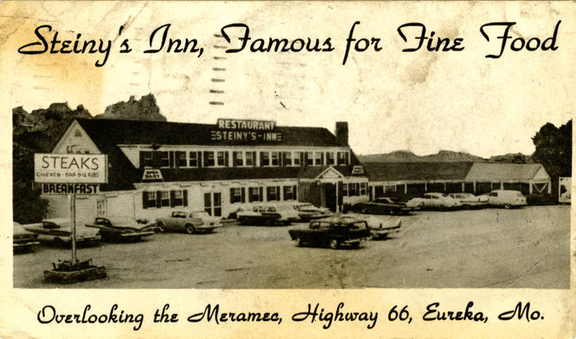 Roadside view of the L & L Motel in Bloomington.